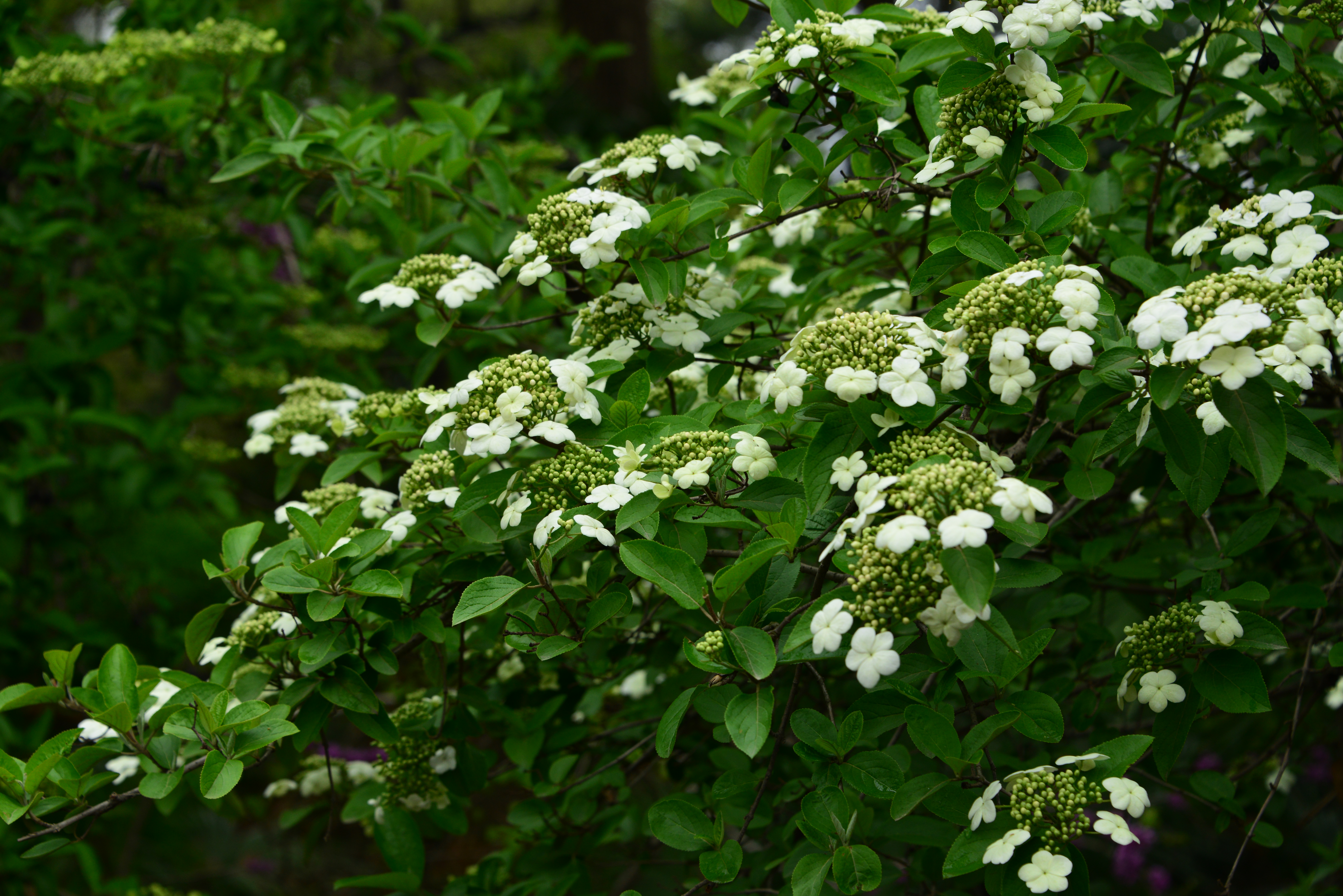 Chinese snowball flowers(琼花） in Yangzhou,China.